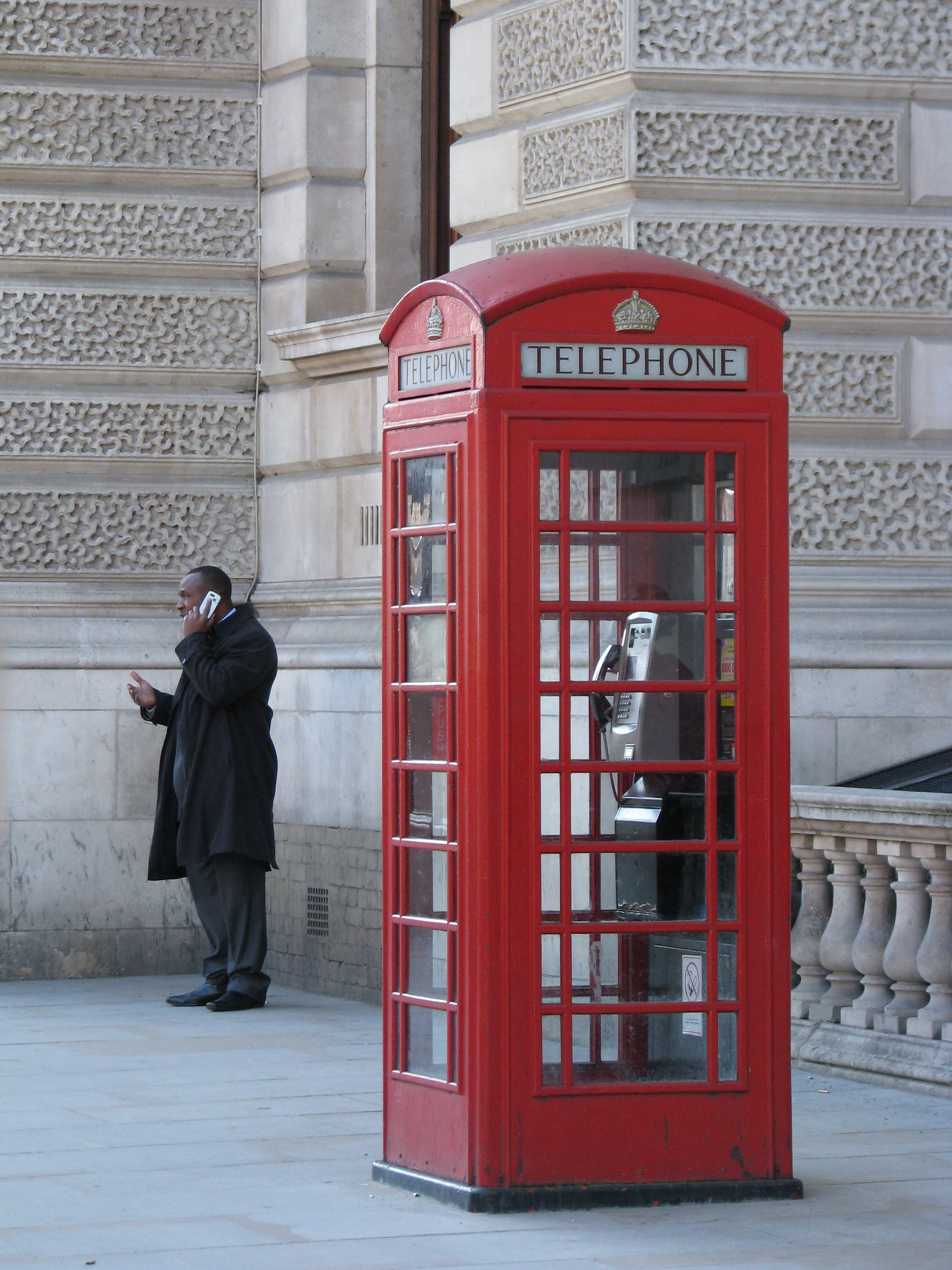 Old and new. The traditional red phone box being ignored for the ubiquitous mobile phone.